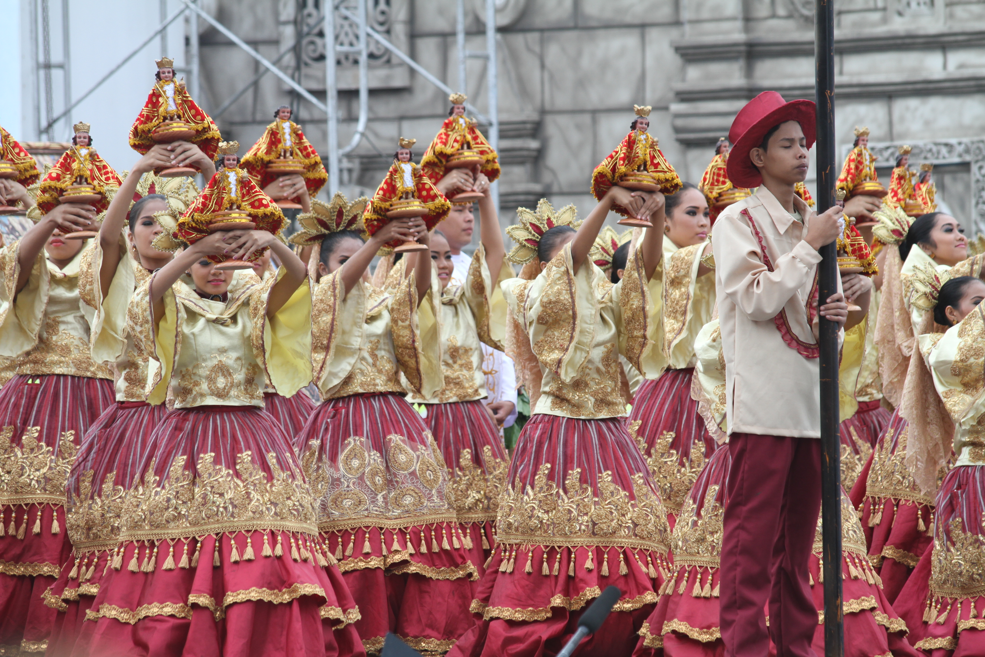 Sinulog Festival Cebu City